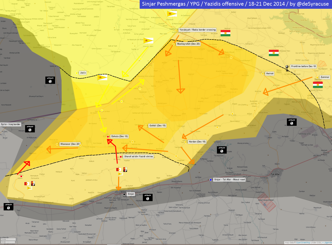 Map of the Sinjar offensive in December 2014, carried out by Kurdish forces. The offensive occurred from December 17–21, which saw the Second Siege of Mount Sinjar broken, and the advance of Kurdish forces into the northern half of Sinjar city. The pre-offensive frontlines are outlined in black dash marks. The routes of the Kurdish offensive are outlined in yellow and orange arrows. The final part of the offensive, the push into the northern part of the city of Sinjar, was added in, which occurred on December 19–22. This map was obtained from Agathocle de Syracuse Yellow = Areas controlled by Kurdish forces Grey = Areas controlled by ISIL Shaded = Areas contested, or zones of conflict